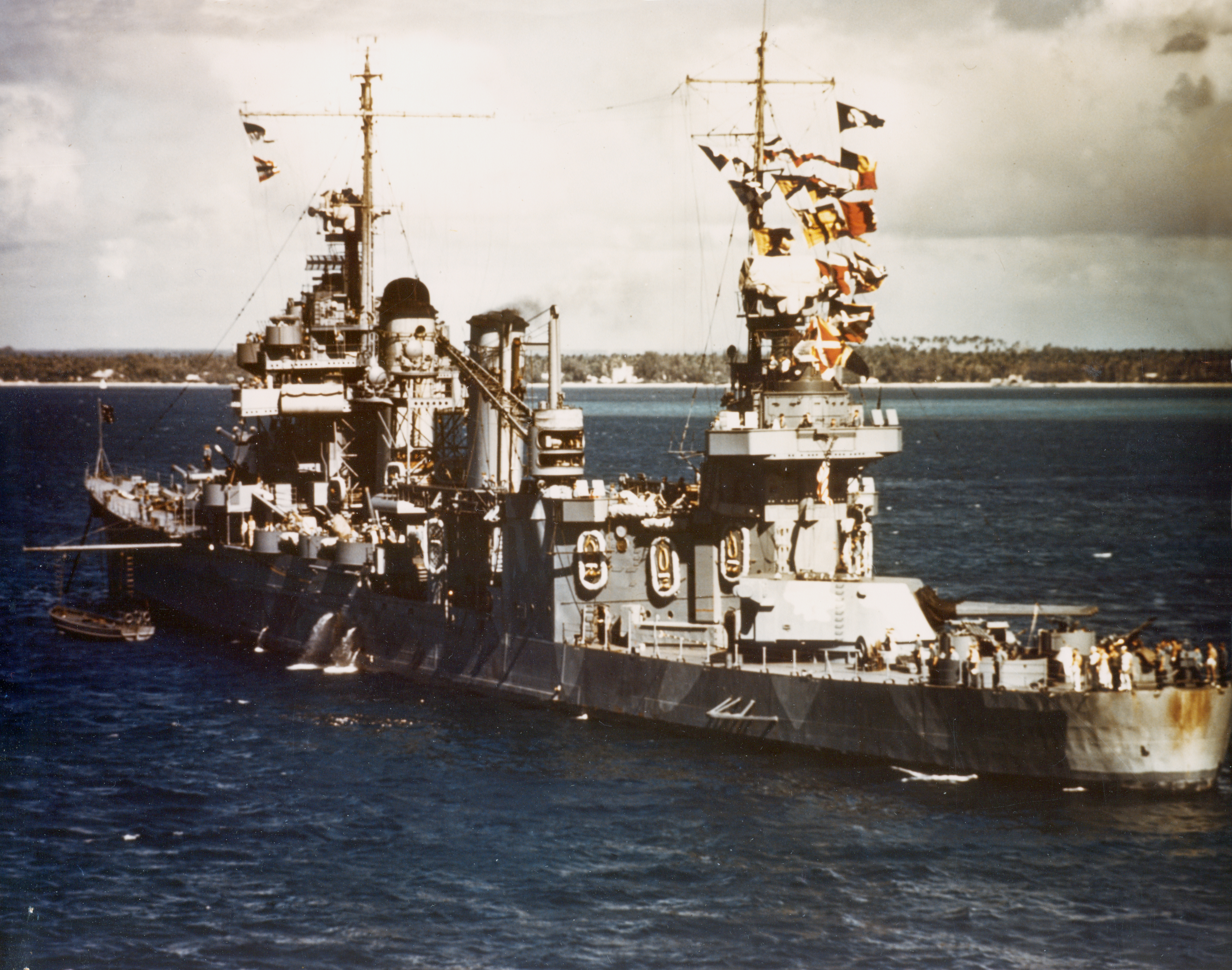 The U.S. Navy heavy cruiser USS Quincy (CA-39) at Noumea, New Caledonia, on the eve of the invasion of Guadalcanal, 3 August 1942. She was sunk six days later, during the Battle of Savo Island. Note Quincy's signal flags and Measure 12 (Modified) camouflage scheme.